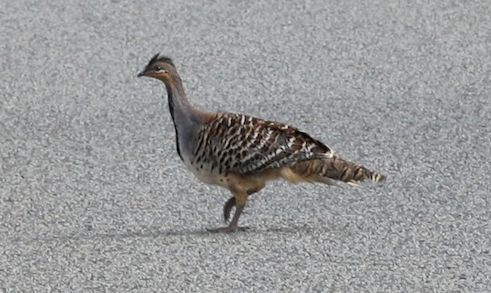 Leipoa ocellata Gould, 1840, Malleefowl on the road between Cobar and Nymagee